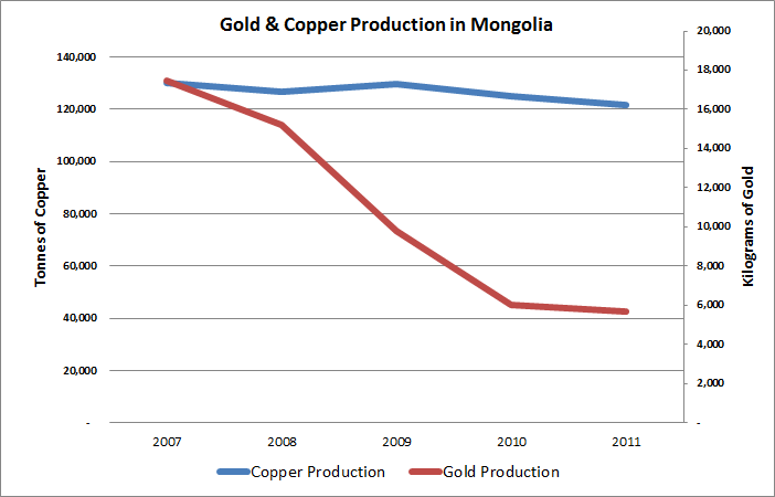 Mongolian Gold and Copper Production - 2007-2011. Source USGS